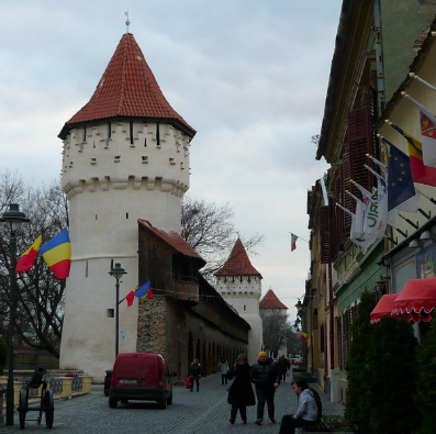 Medieval fortified wall and towers in Sibiu, Transylvania, Romania